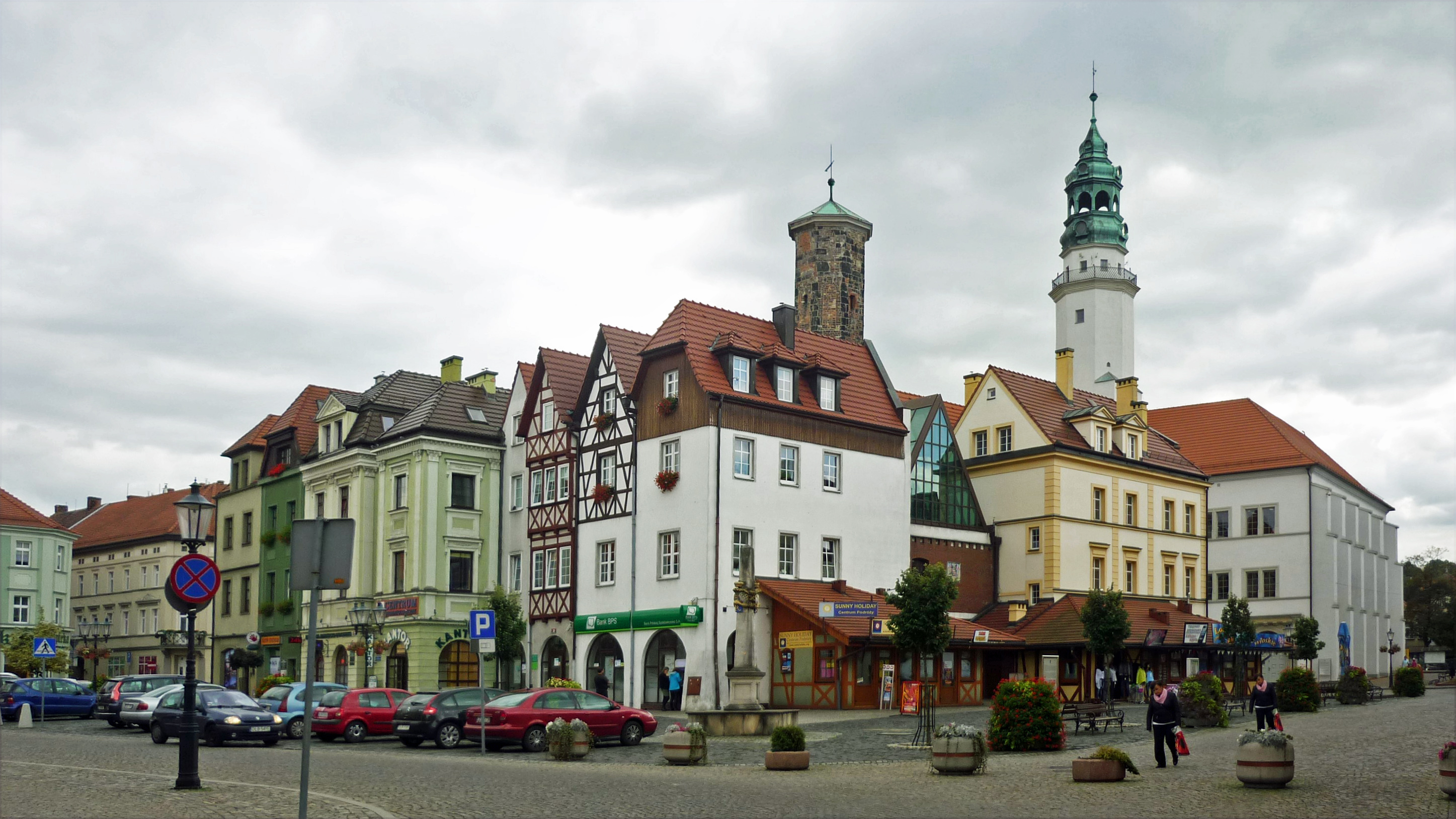 Market square in Lubań, Poland